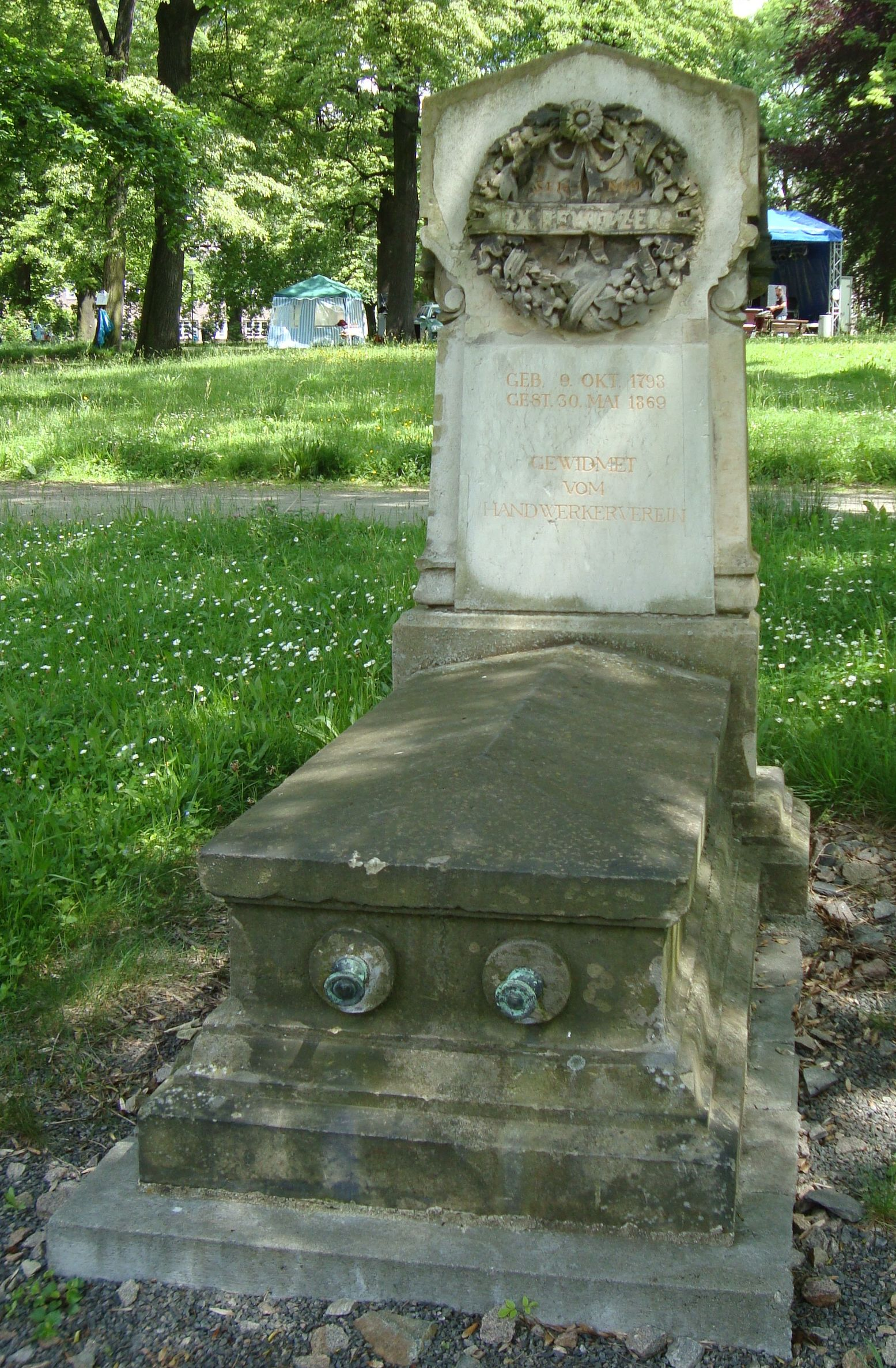 Tomb of Franz Xaver Rewitzer (1798—1869), German politician and revolutionary of 1848, located in Chemnitz